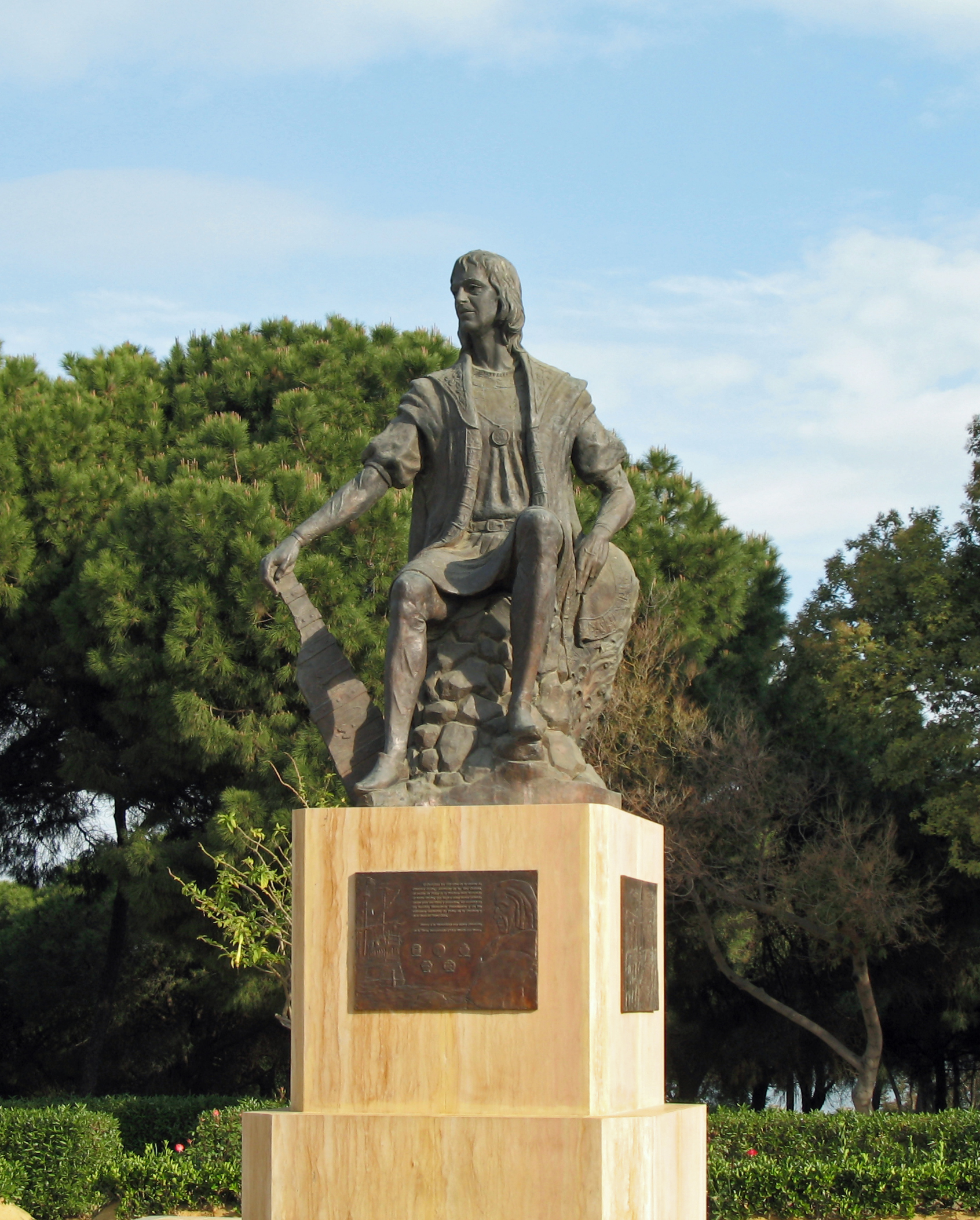 Palos de la Frontera (Huelva, Spain): monastery of Santa María de la Rábida - Christopher Columbus monument